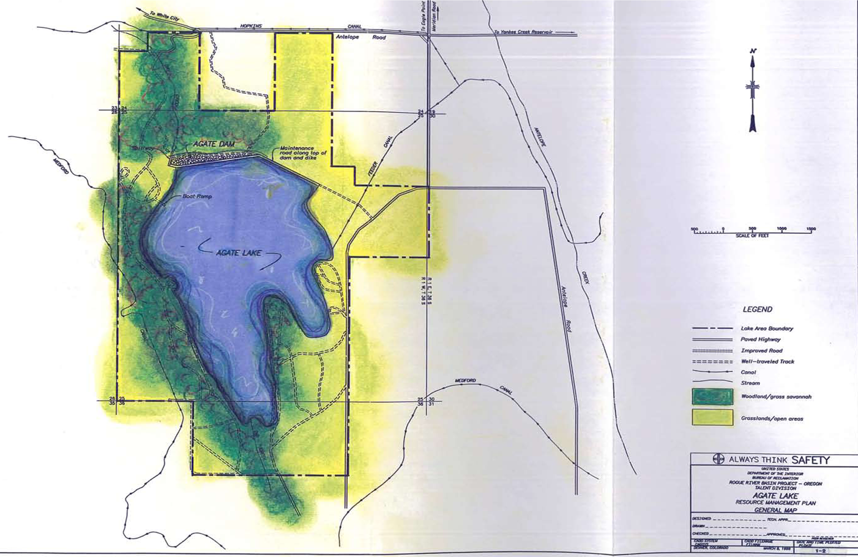 A map of Agate Lake created by the US Bureau of Reclamation.